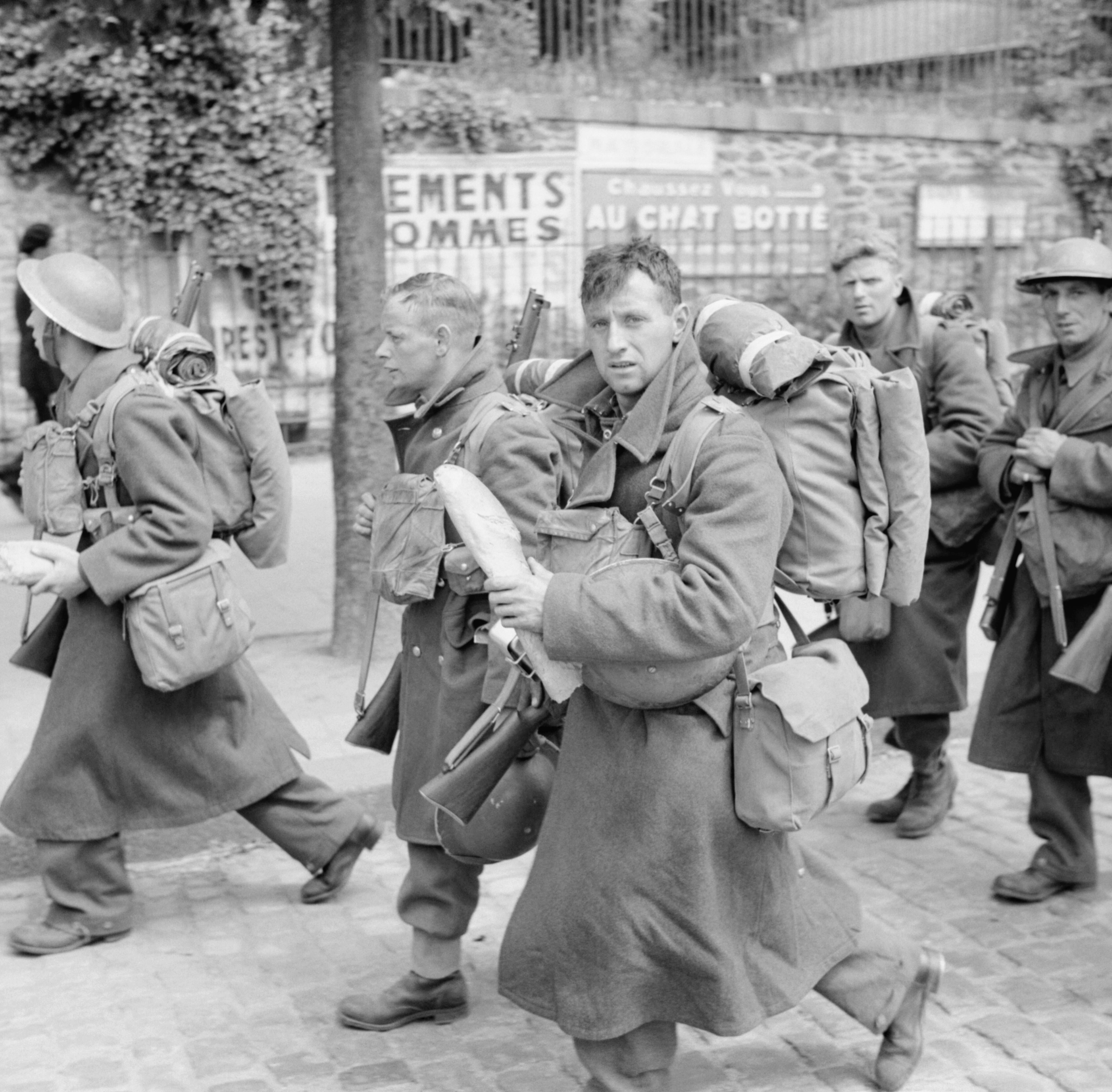 The British Army in France 1940 Troops on their way to the port at Brest during the evacuation of British forces from France, June 1940.